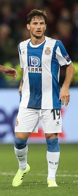 Pablo Piatti with RCD Espanyol in an Europa League game against PFC CSKA Moscow.